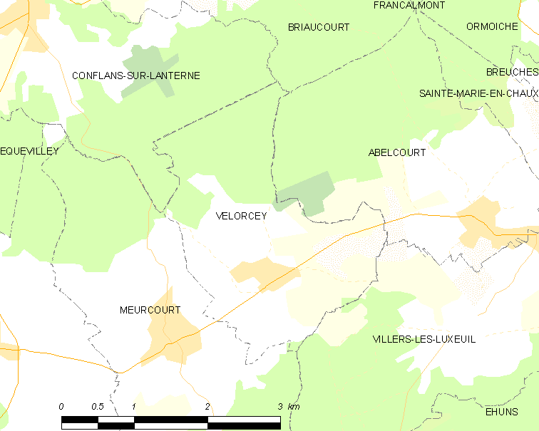 Map of French municipality